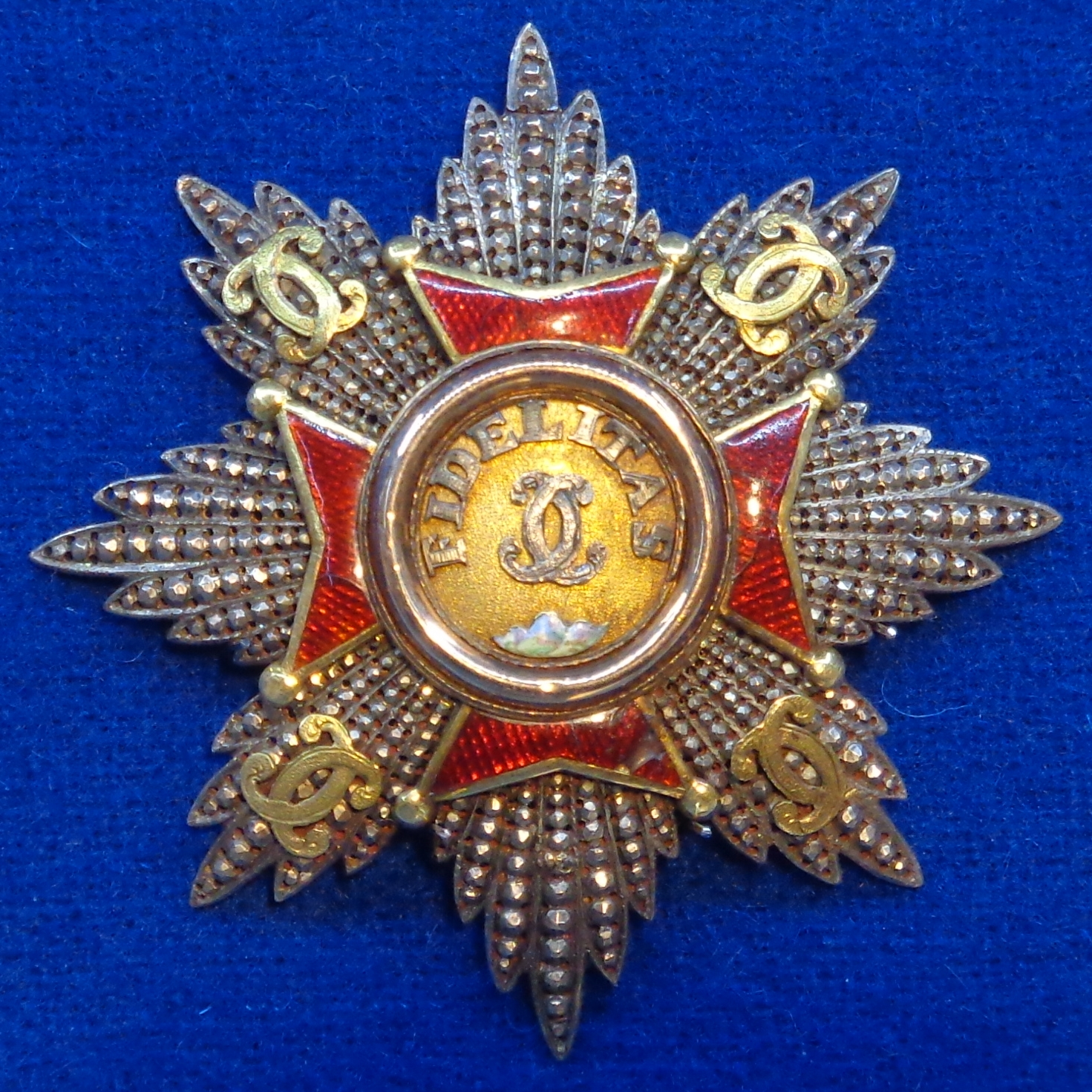 House Order of Fidelity, star of Grand Cross, 1840. Grand Duchy of Baden. The exhibition of the Tallinn Museum of Orders of Knighthood, Estonia.